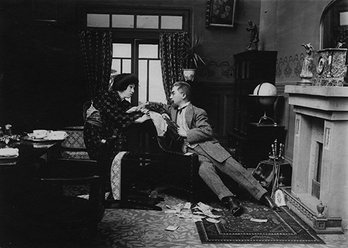 Teinosuke Kinugasa (left) and Hideo Fujino (right) in Hakucho no Uta (白鳥の歌) directed by Eizō Tanaka (1920)